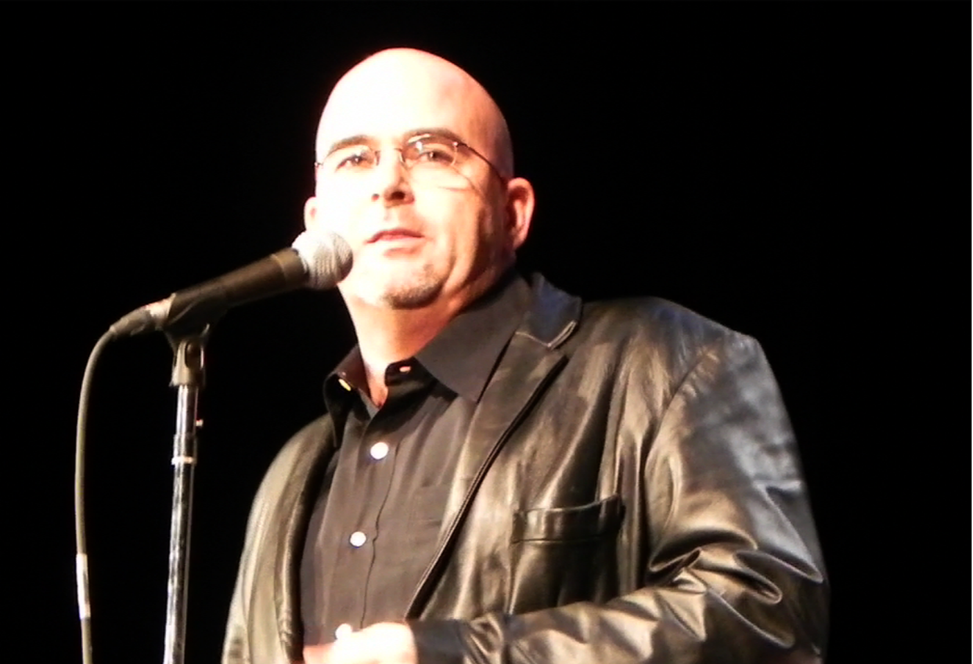 Noel Murphy (comedian) performing at the opening for bill cosby